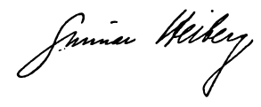 Signature of Norwegian playwright Gunnar Heiberg.